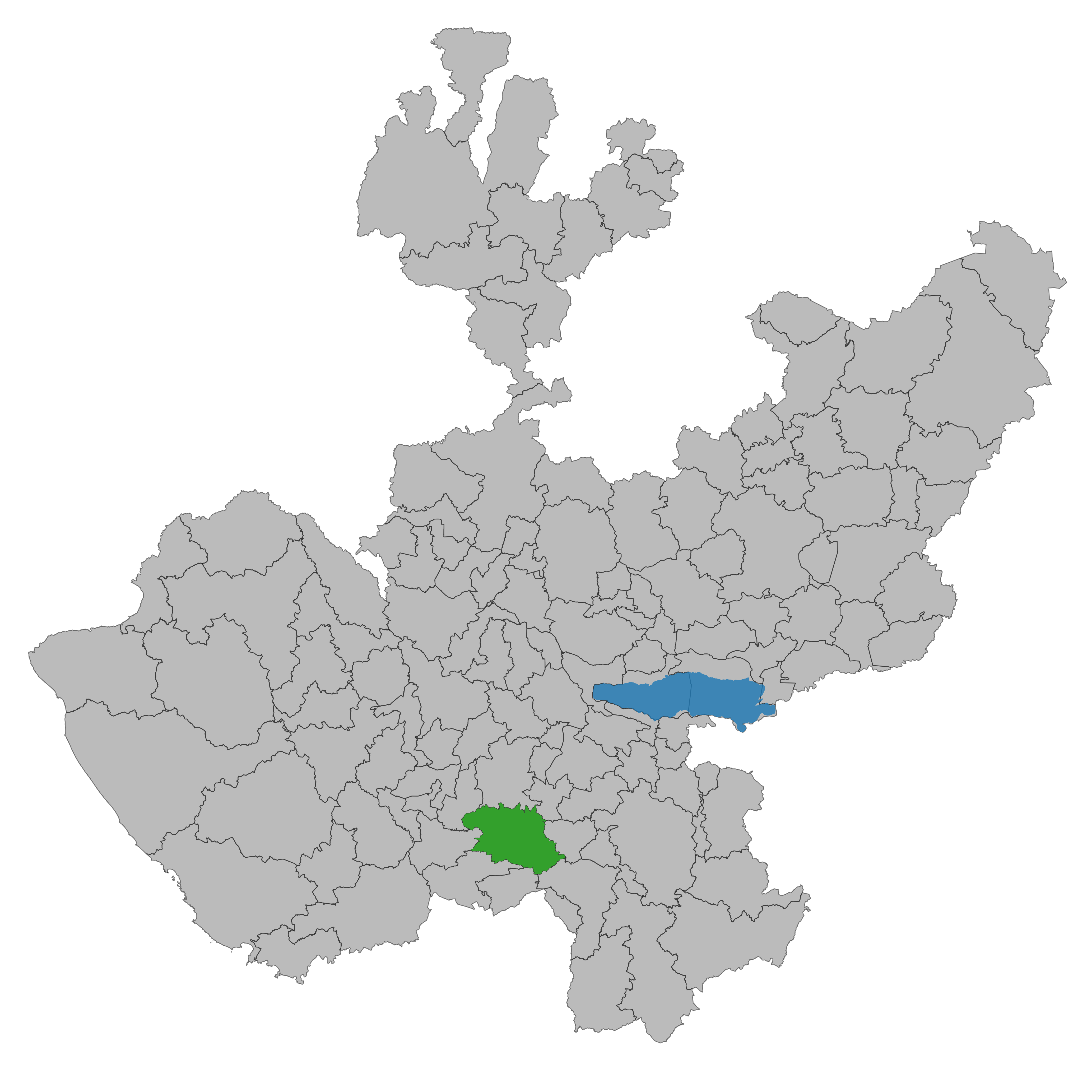 Municipality of Jalisco. Prepared with the software QGIS version 2.8.2 Wien & with information of SCINCE 2010 version 05/2013